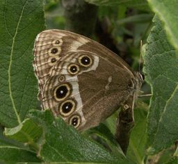 Lopinga achine, woodland brown, Lithuania